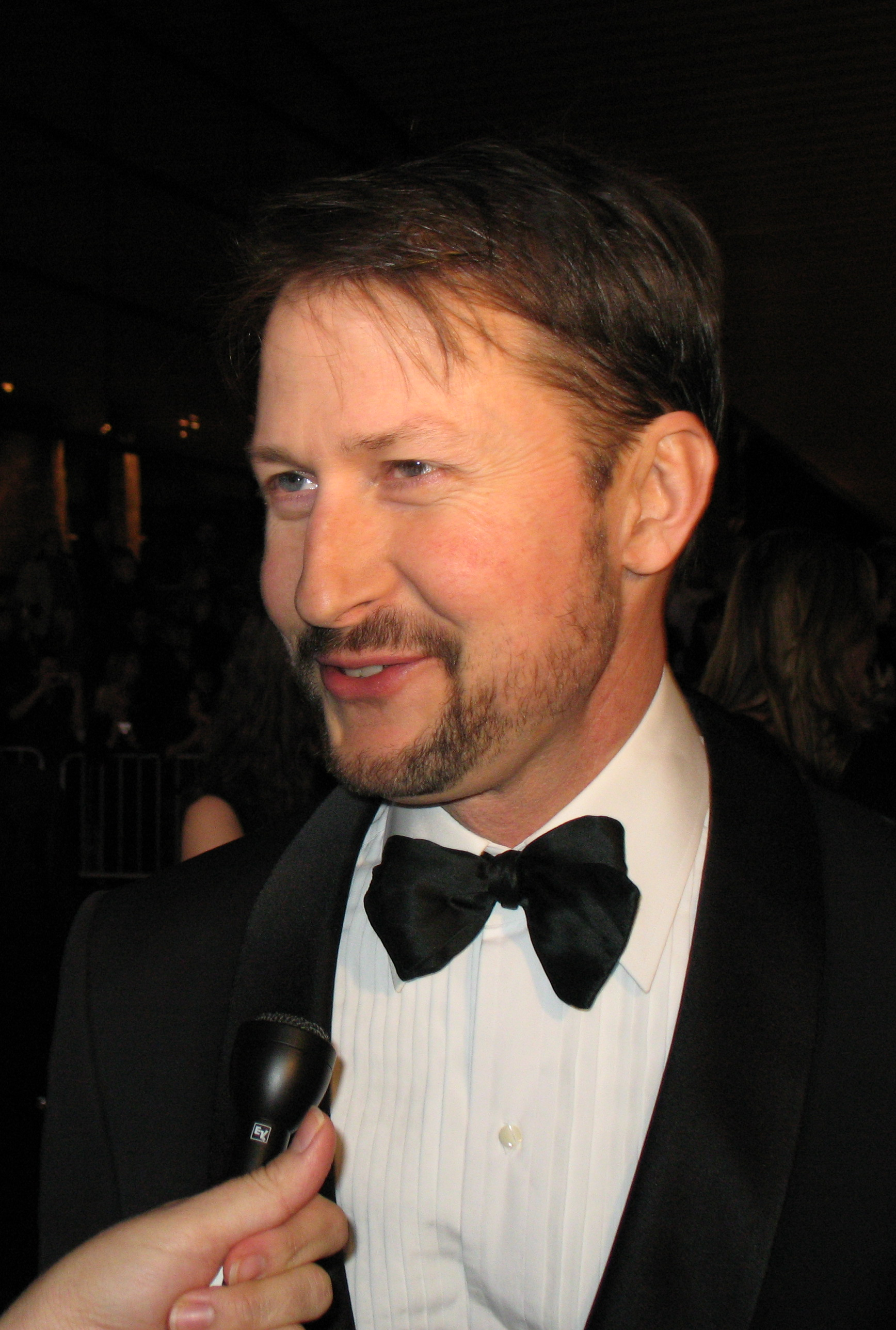 Picture of Todd Field - Cropped from original image (Jan/9/07)